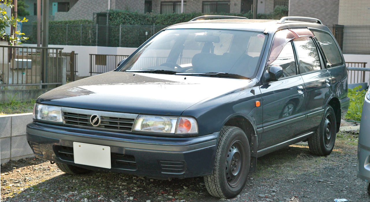 Nissan Sunny California ( WY10 )